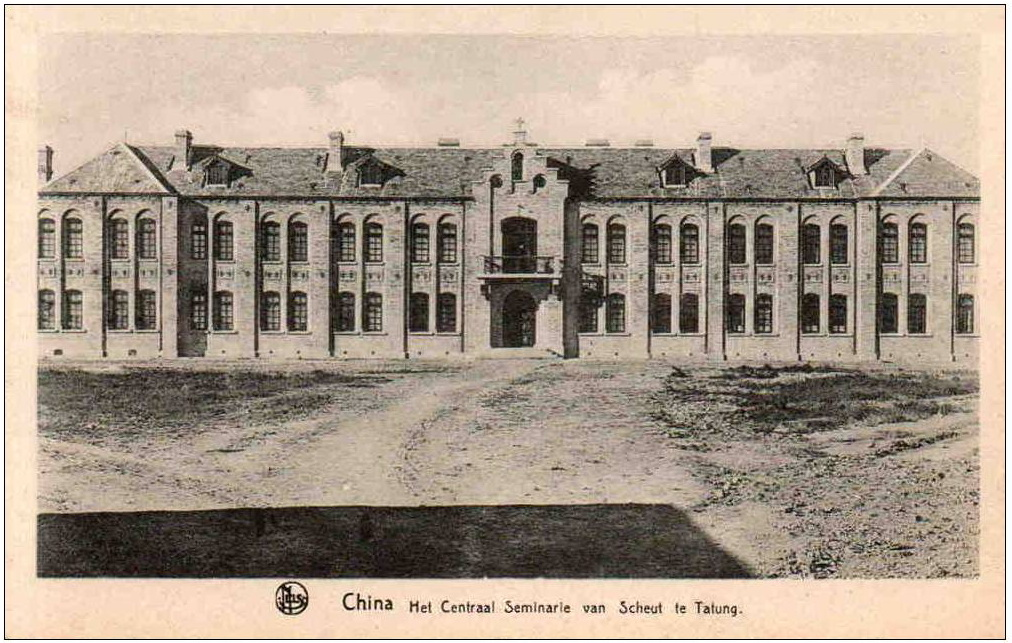 Central Seminary of Datong